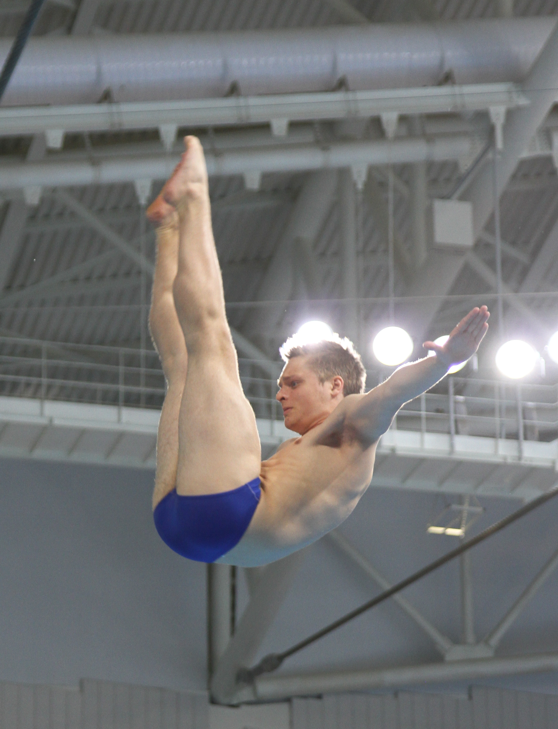 Juho Junttila at the European Games in Baku 2015 from the 3m diving events